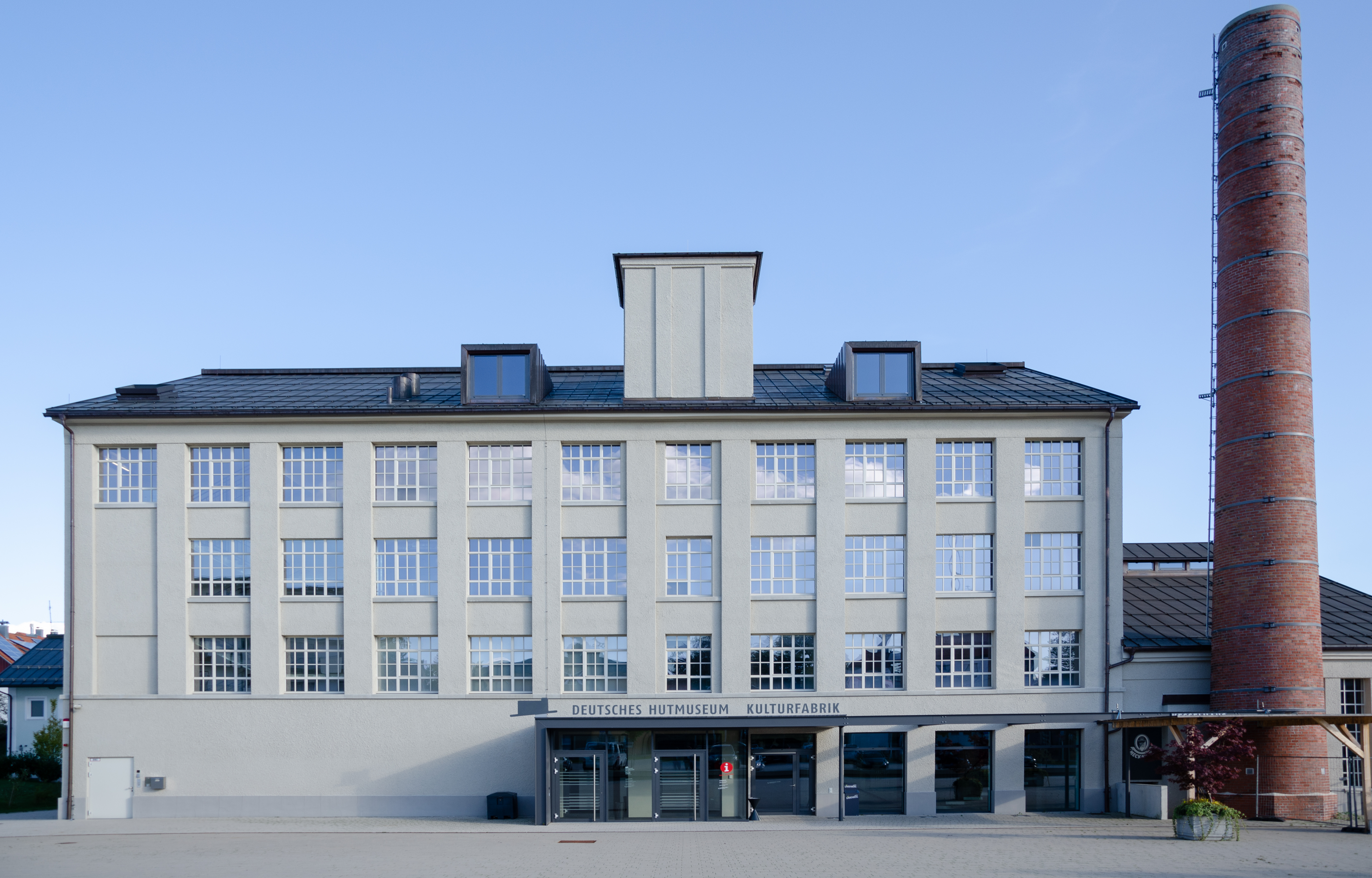 The German hat museum in Lindenberg im Allgäu, Germany.